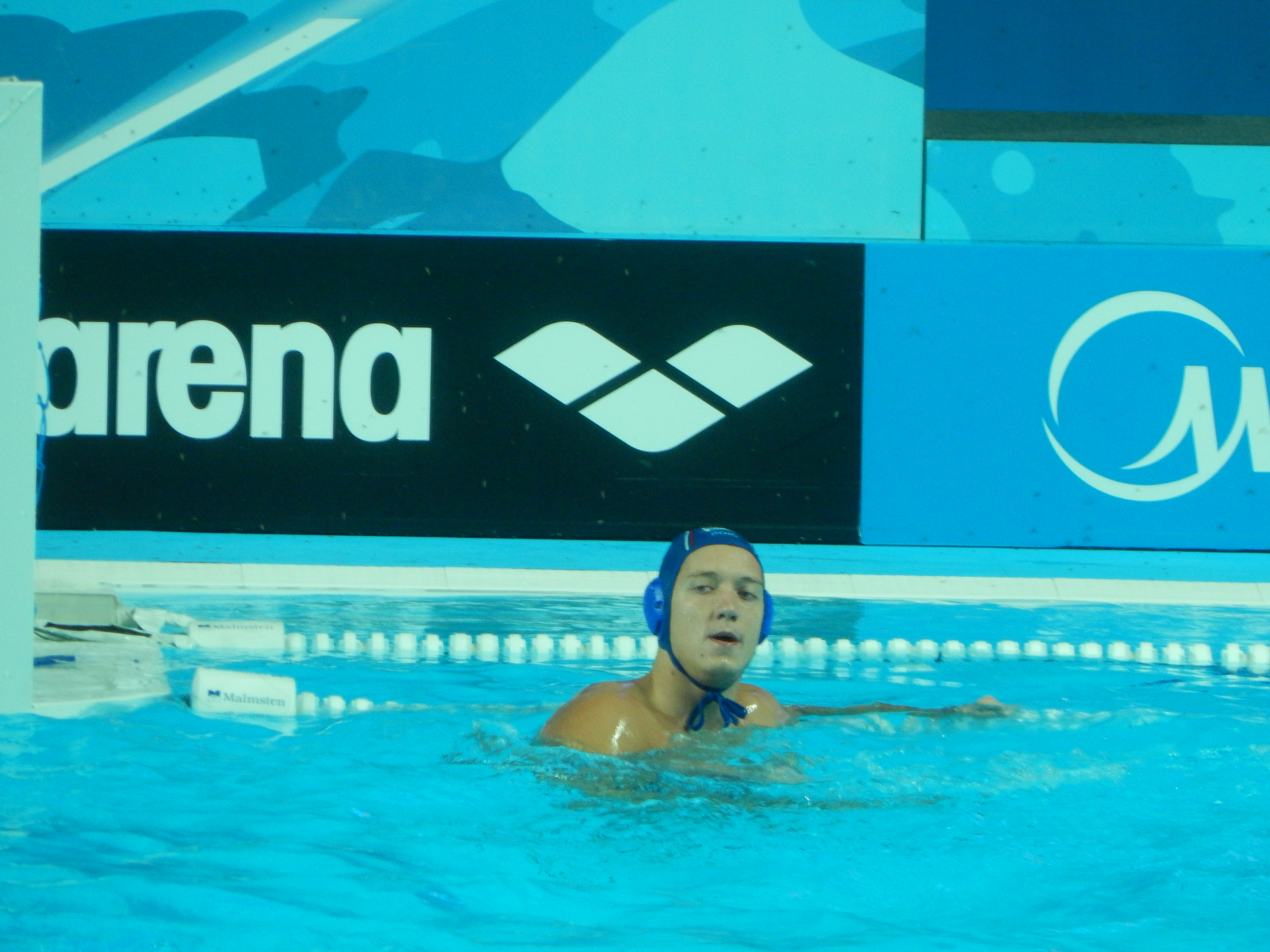 The gold medal match between Team Serbia and Team Croatia and the victory ceremony. All photos have been taken from the photographers sector. I was simply usual visitor but my ticket was to non-existent seats, therefore I was moved to that sector. All good photos I upload to WikiCommons for free use.